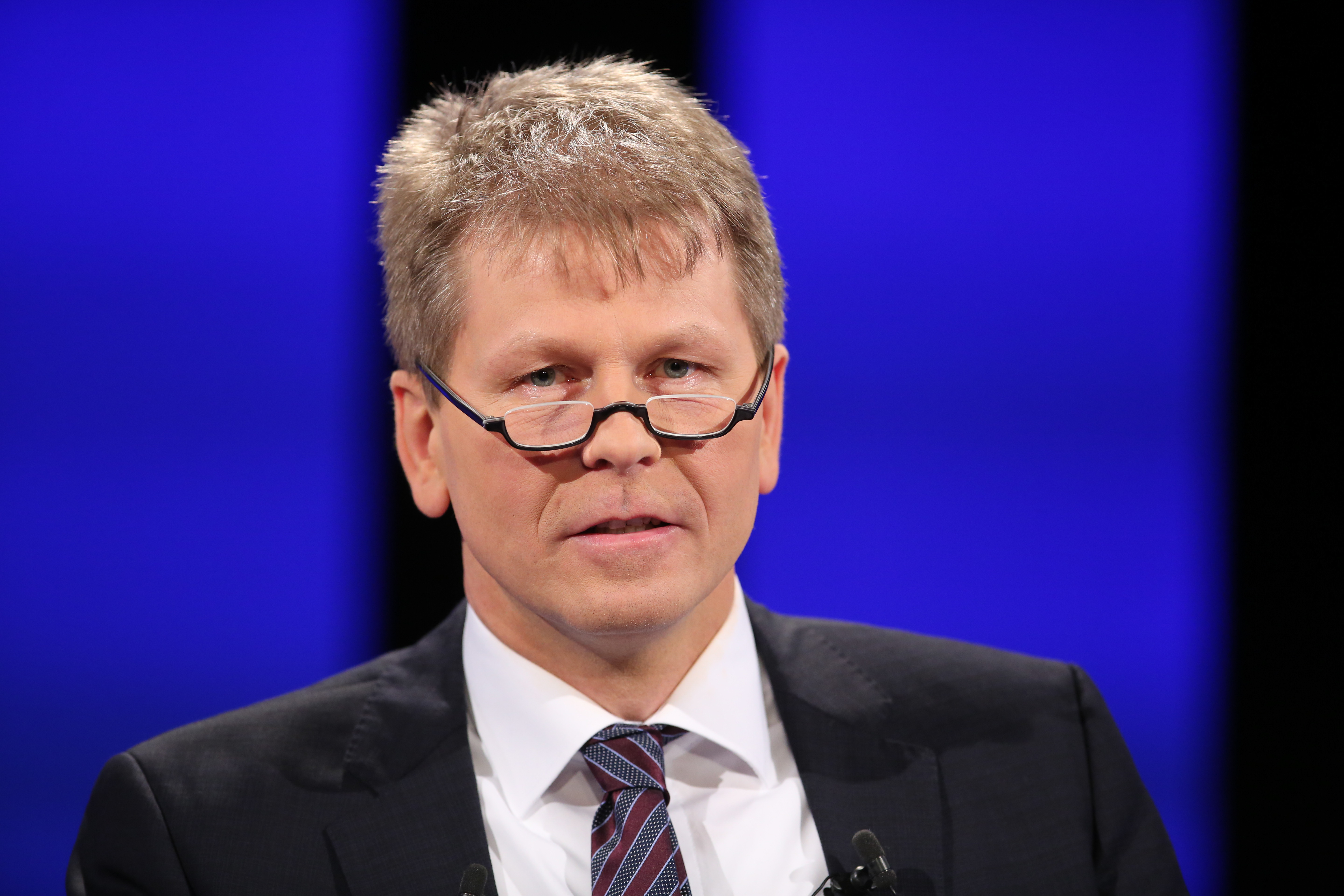 Helge Matthiesen at the 26th Bonn Economic Forum (Bonner Wirtschaftstalk), Kunst- und Ausstellungshalle der Bundesrepublik Deutschland (Federal Art and Exhibition Hall), Bonn